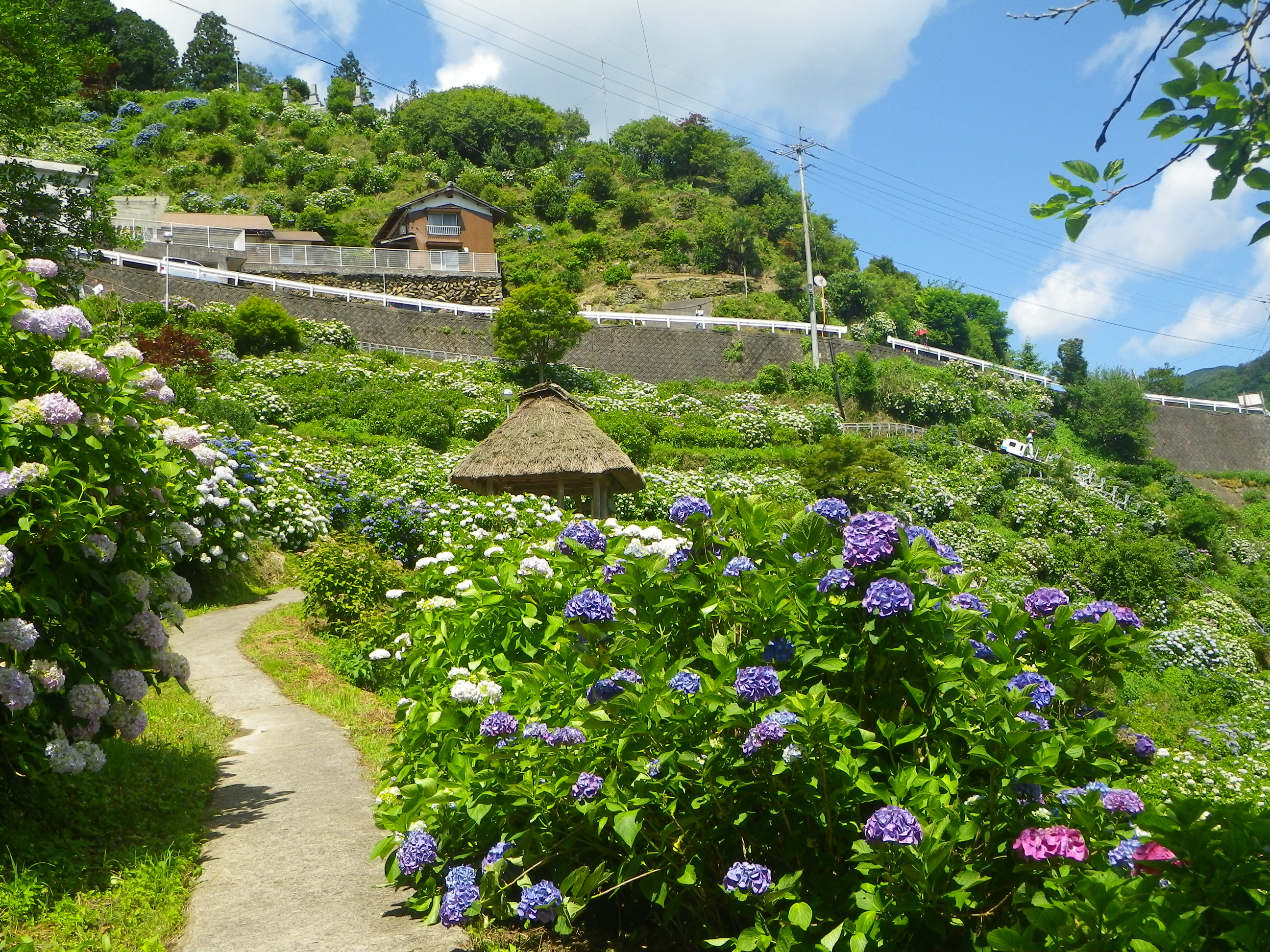 Shingu_Hydrangea_Park